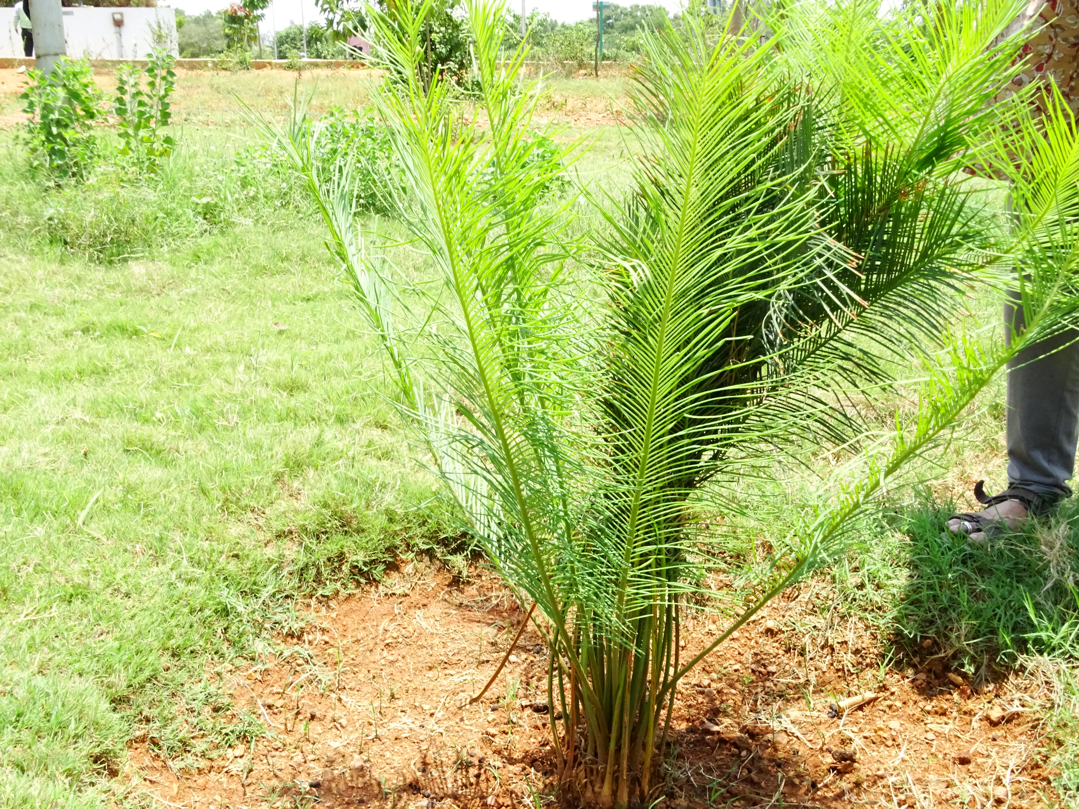 Cycas beddomei seen in Amruth Herbal Gardens (Transdisciplinary University) Bangalore